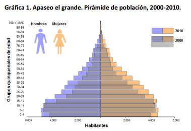 Pirámide de Población 2000-2010